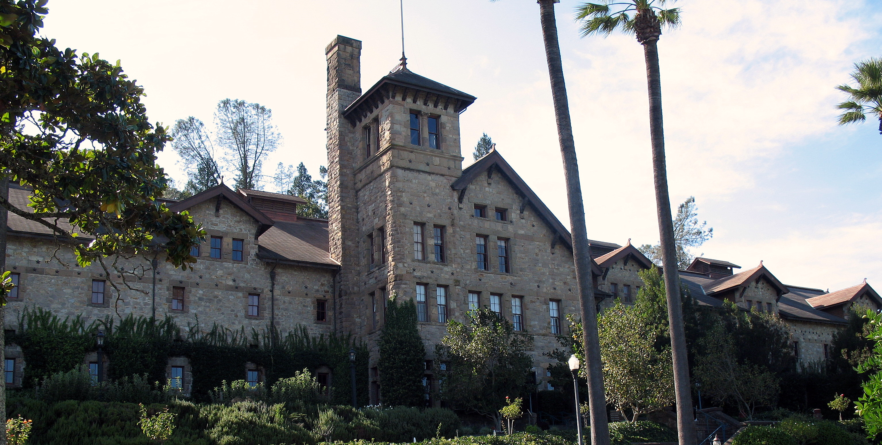 National Register of Historic Places listings in Napa County, California. Greystone Cellars, 2555 Main St., St. Helena, California